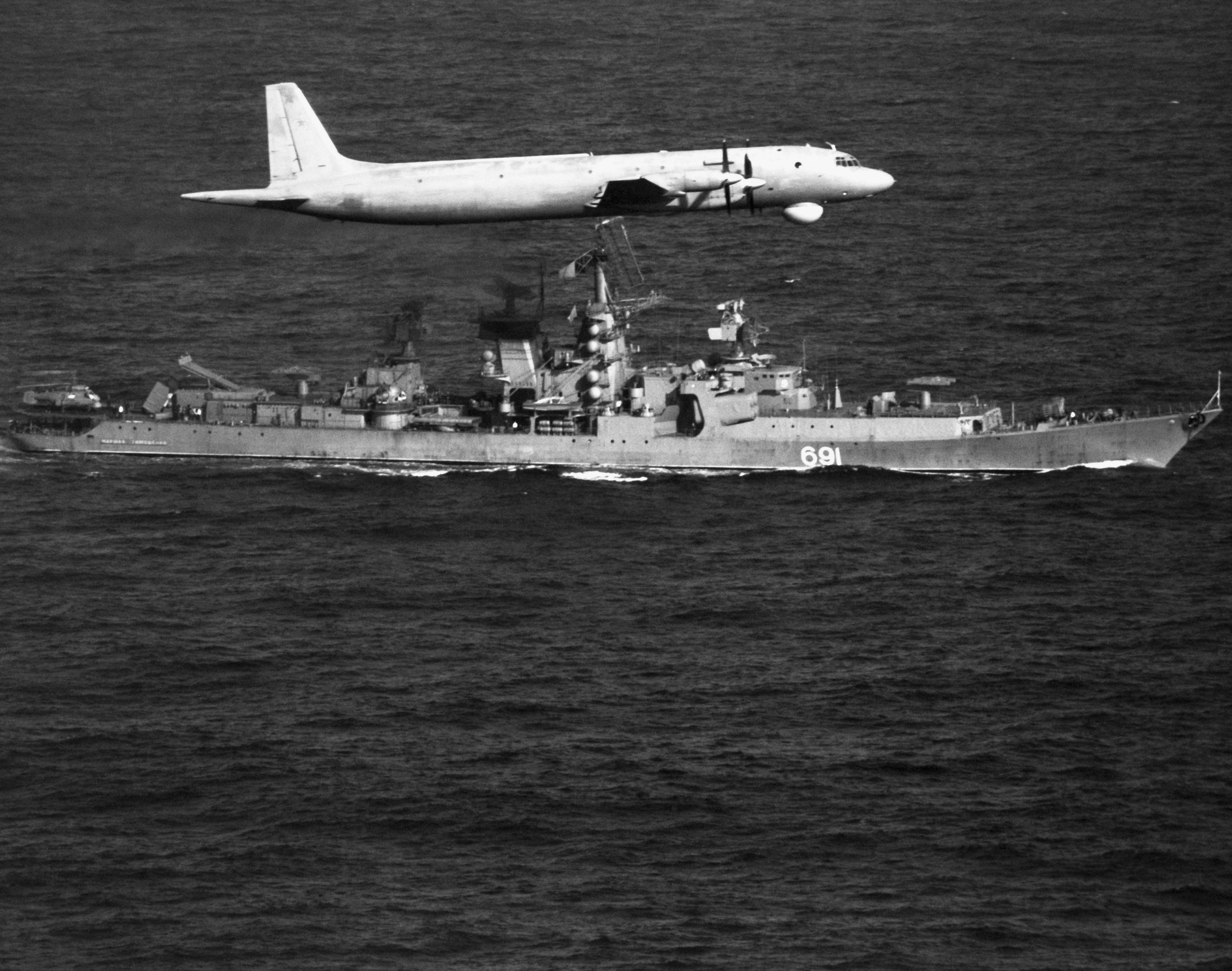 A starboard beam view of the Soviet Kresta II class guided missile cruiser MARSHAL TIMOSHENKO underway with an Il-38 May aircraft passing overhead. (SUBSTANDARD)